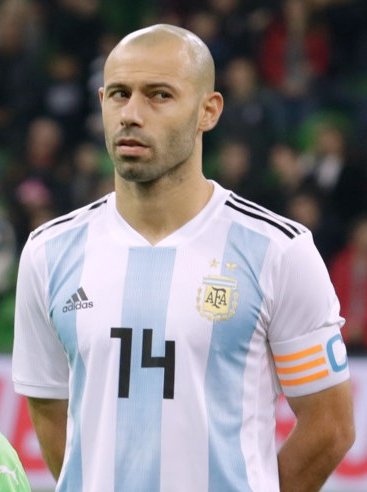 Argentine footballer Javier Mascherano